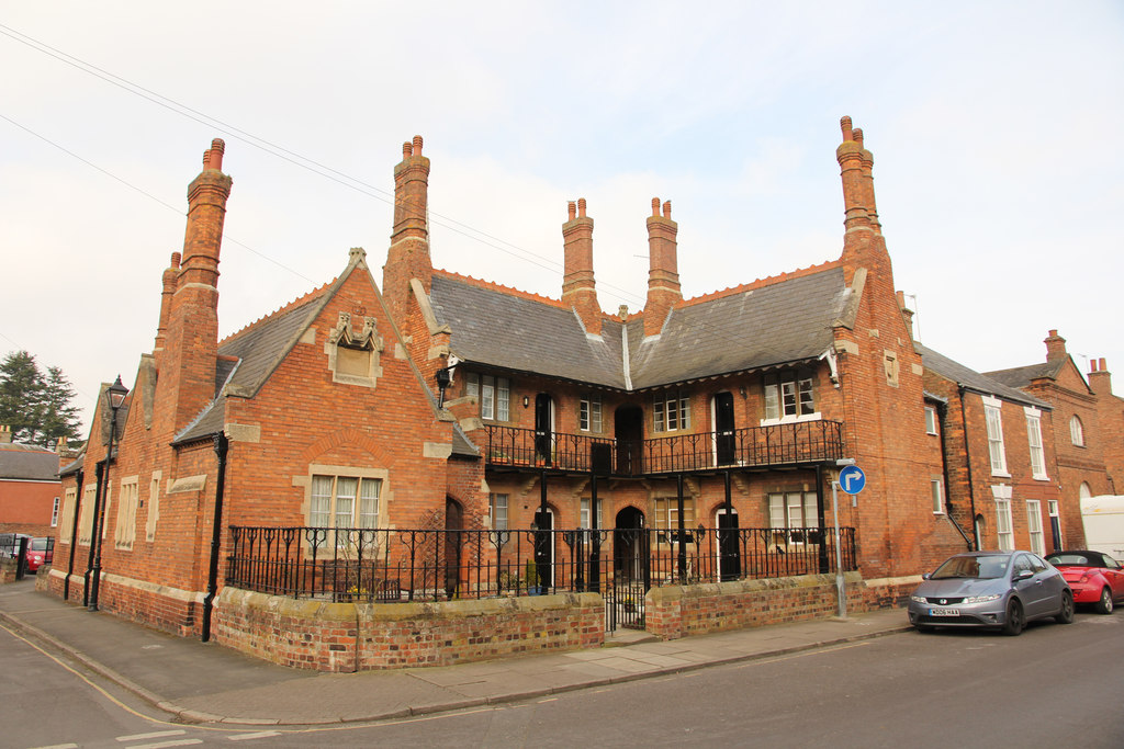 Bedehouses Almshouses on Gospelgate, founded in 1551 and sometimes referred to as King Edward VI's Hospital or Our Lady Bede House as the land formerly belonged to the Guild of St.Mary. The current grade II listed neo-Tudor building is by celebrated and prolific local architect James Fowler in 1868-69.